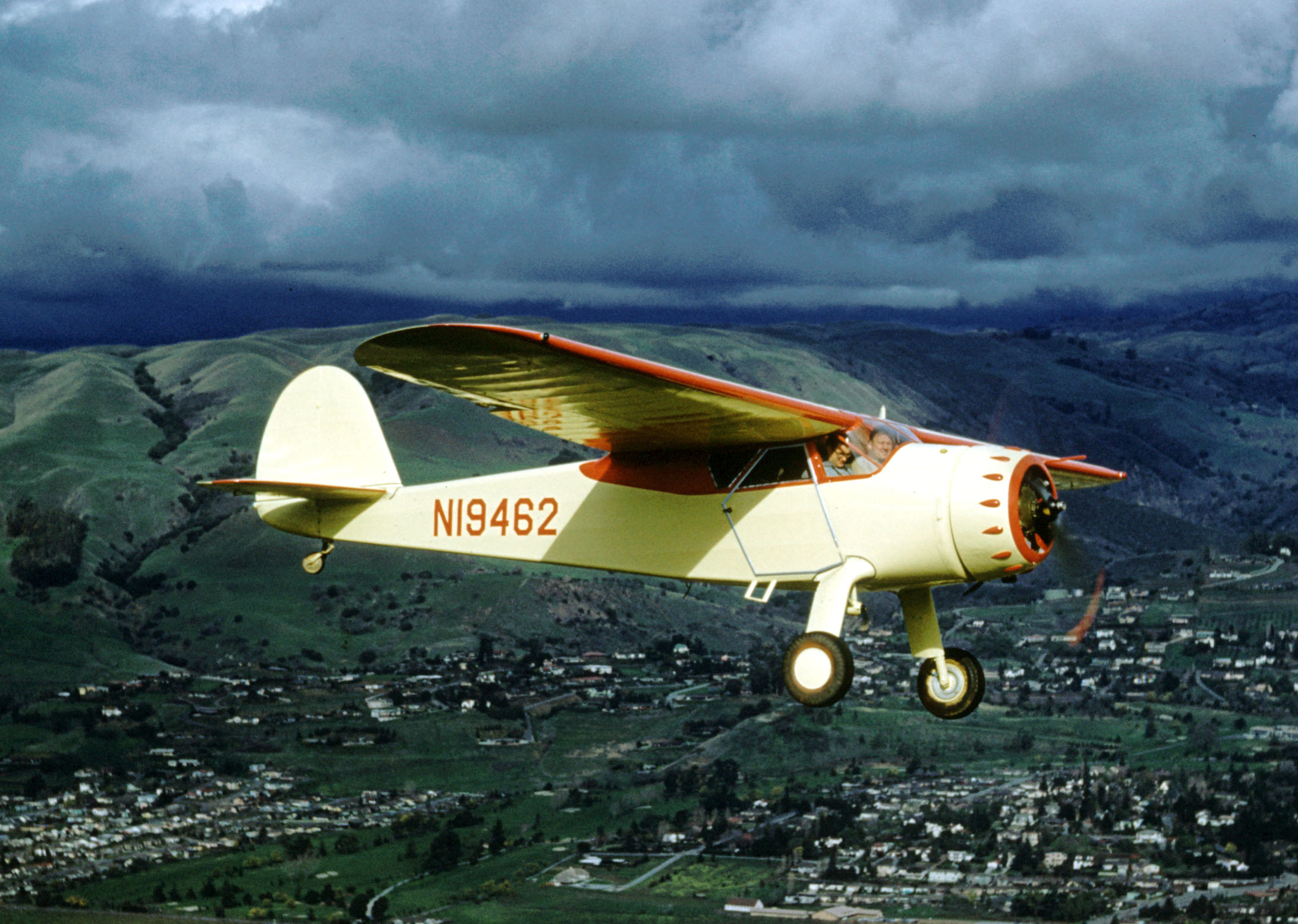 Airmaster_N19462_SanJose_0262_2b